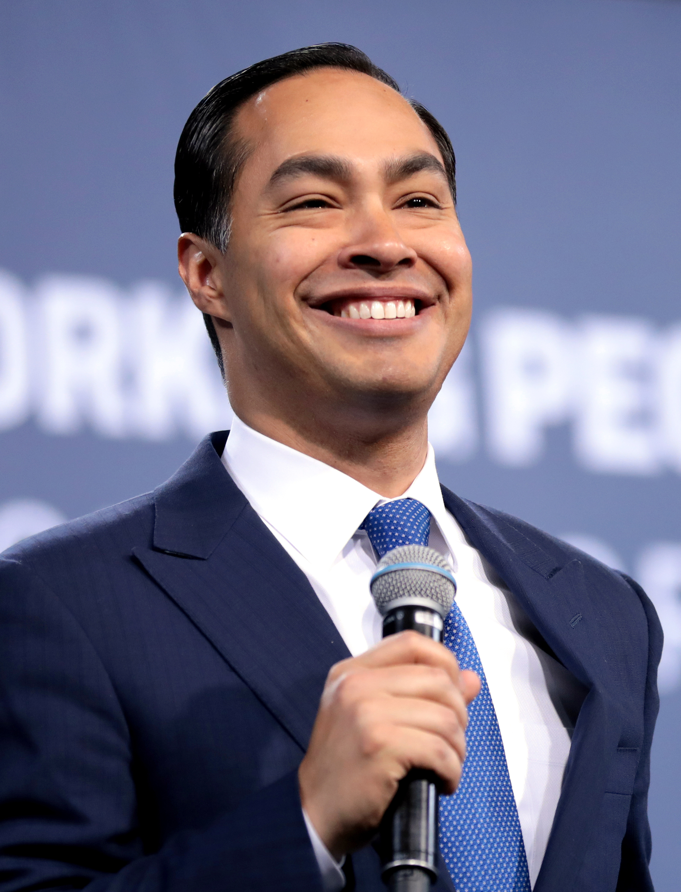 Julian Castro speaking at an event in Las Vegas, Nevada.